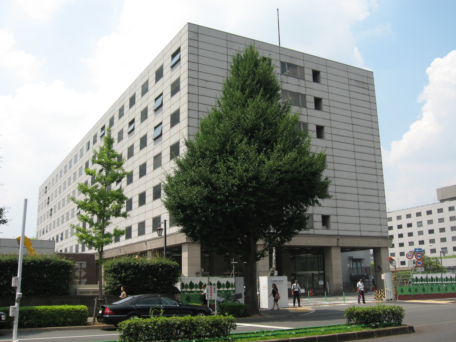 The First Members' Office Building of the House of Representatives. 2-2-1 Nagatachô, Chiyoda, Tokyo.